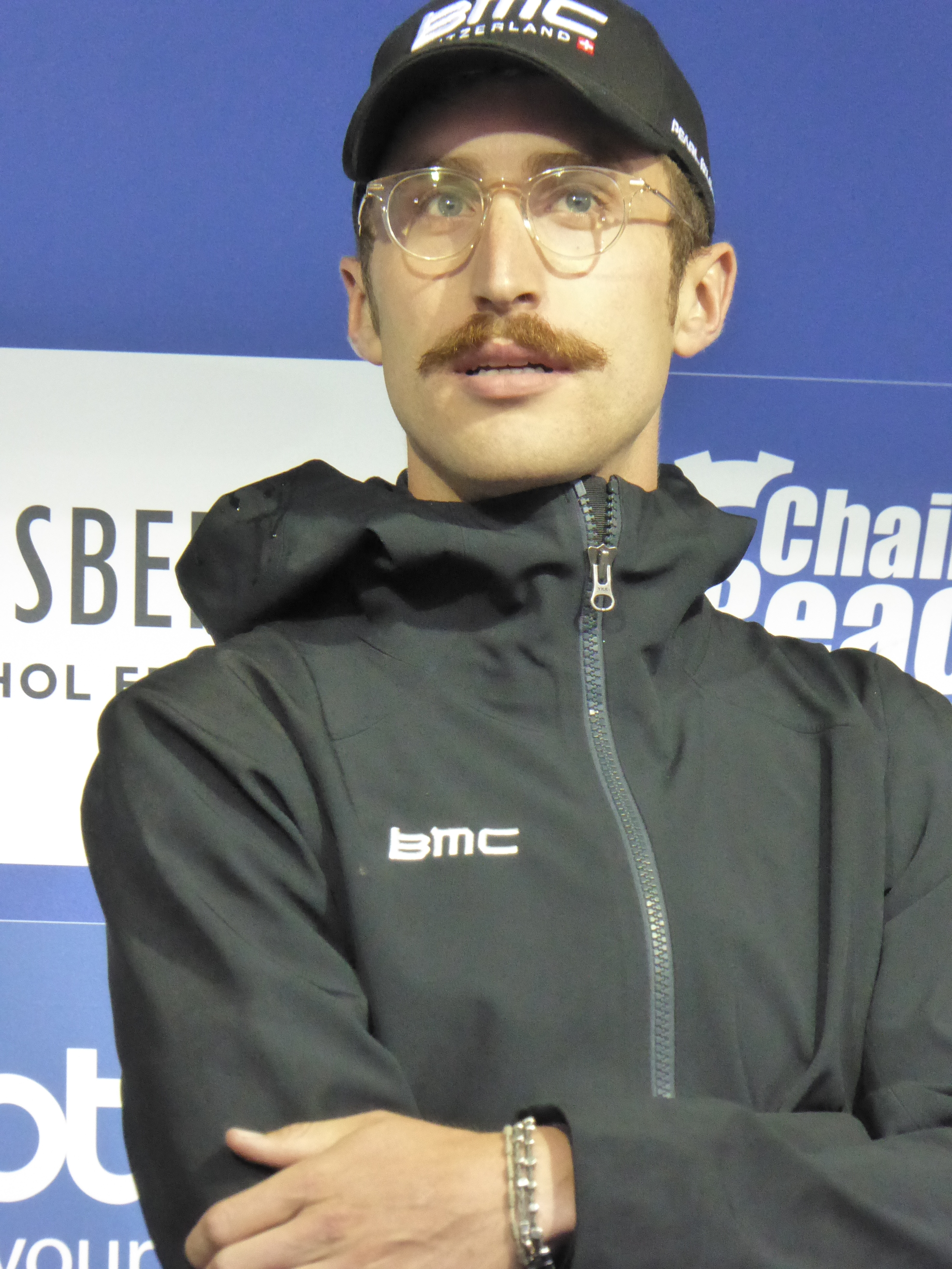 Taylor Phinney (BMC Racing Team), pictured at the 2016 Tour of Britain team presentation in Glasgow on 3 September 2016.